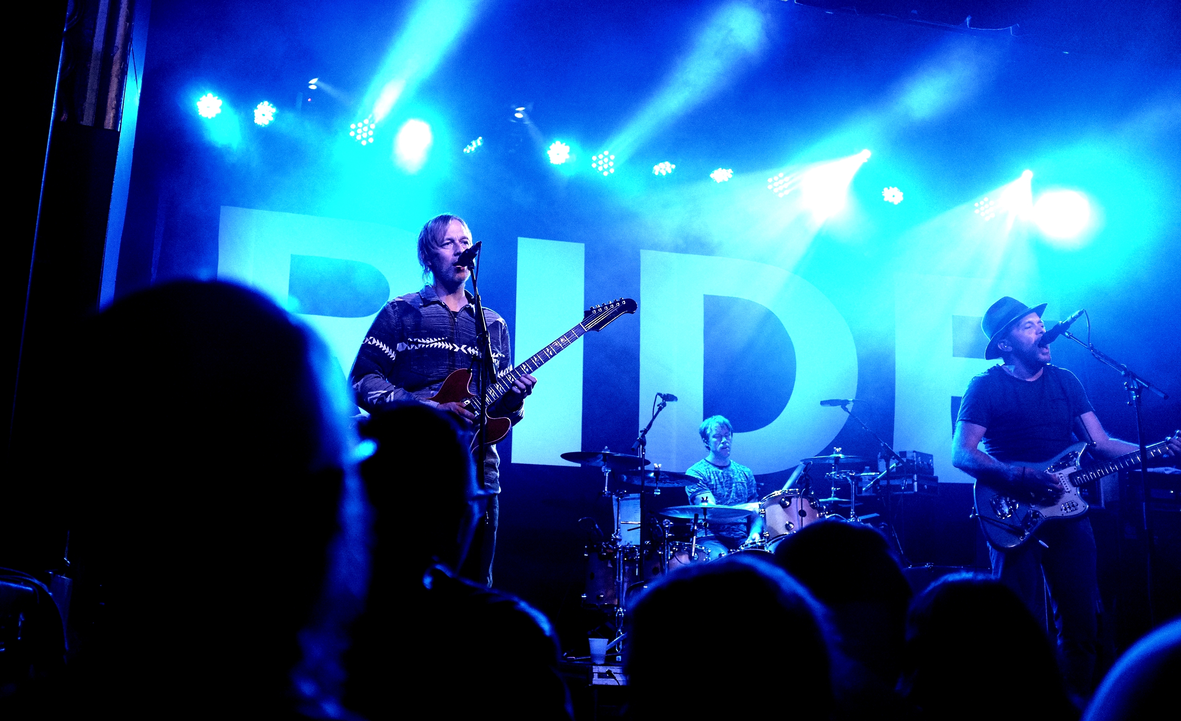 The band performing in 2015 at Saint Andrews Hall in Detroit, MI.